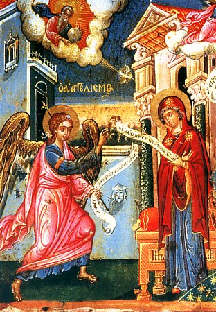 Annunciation (greek icon)